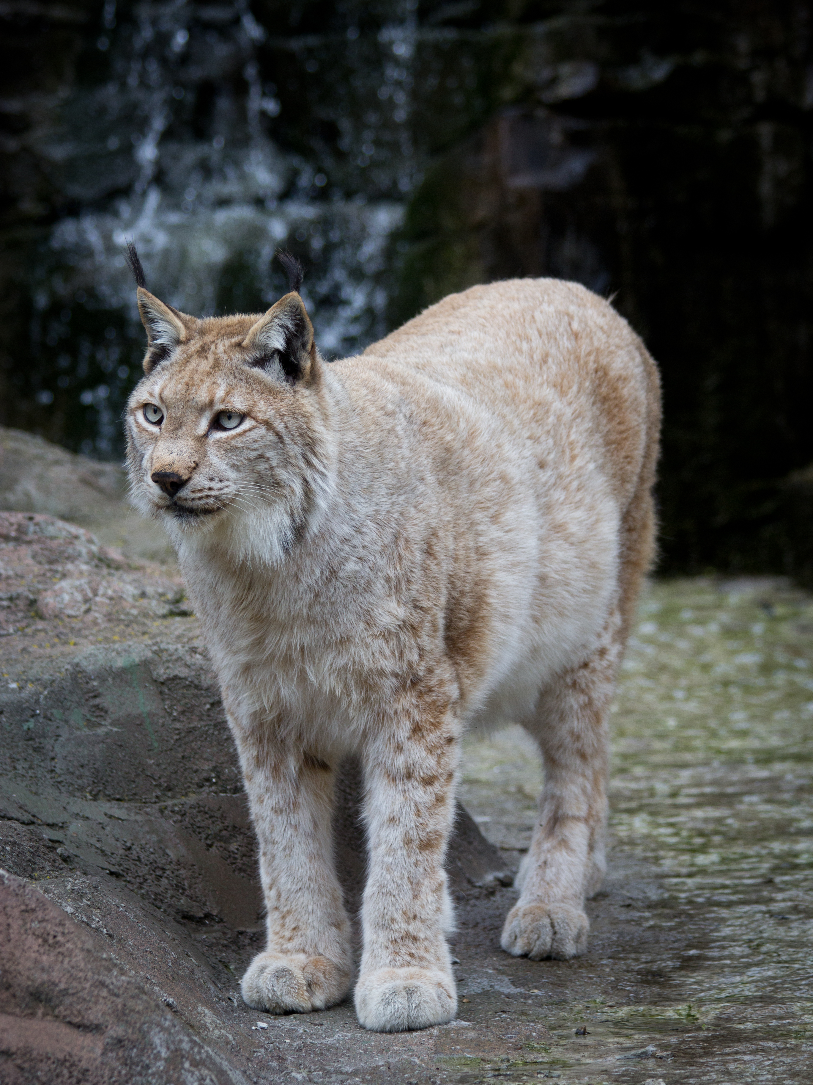 Eurasian lynx (Lynx lynx) in the Zoo of Madrid, Spain.